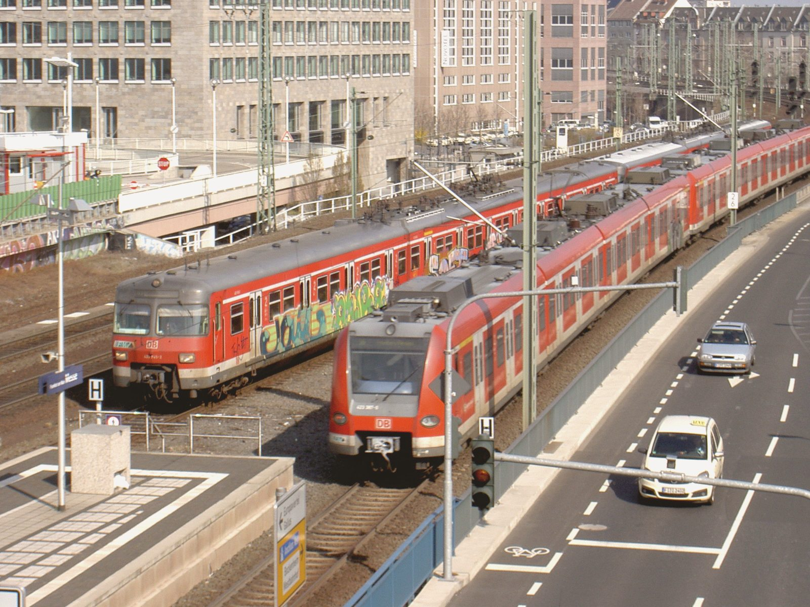 Two S-Bahn trains at the Frankfurt Fair Station